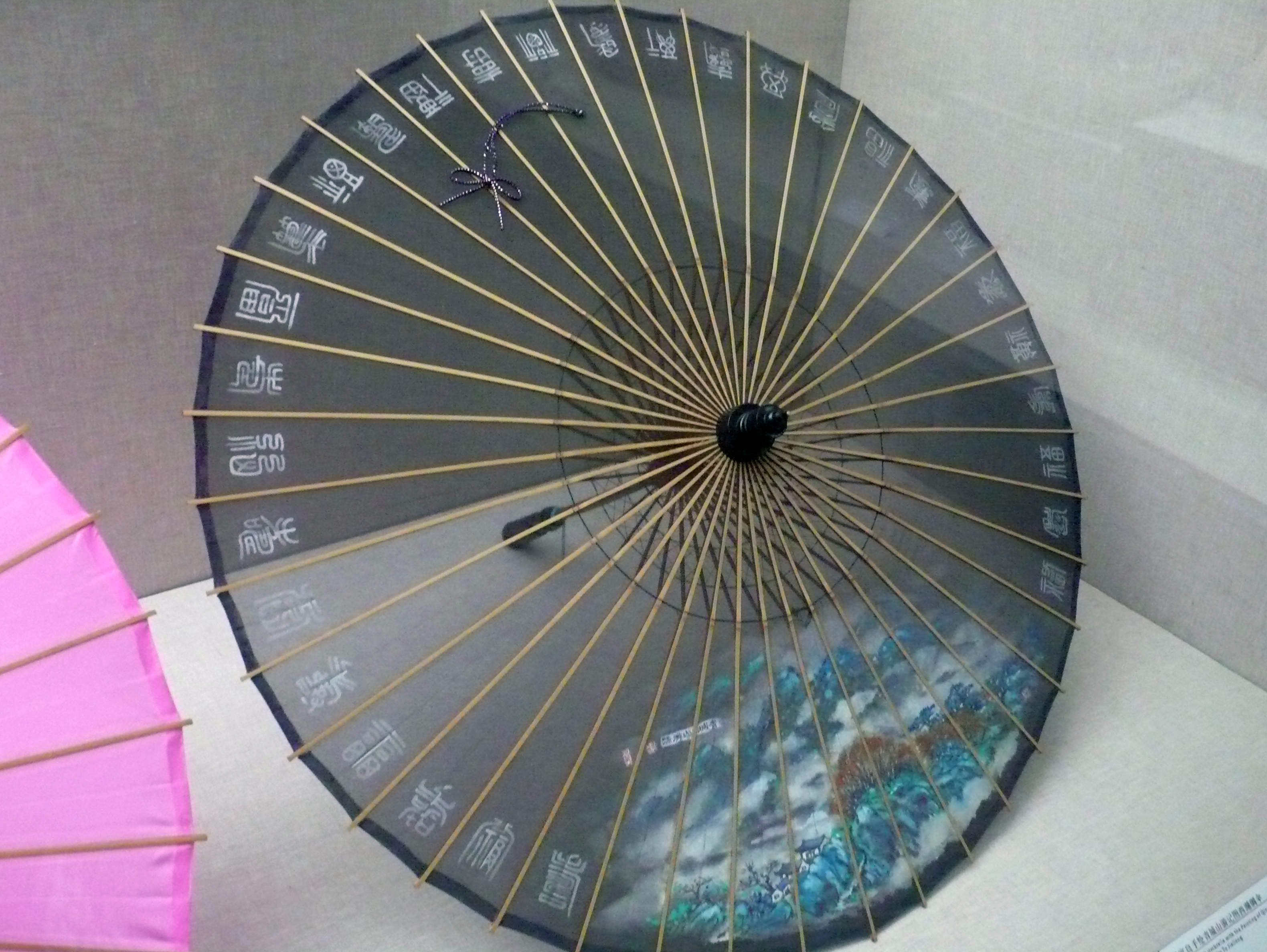 A Hangzhou silk (pongee) umbrella.